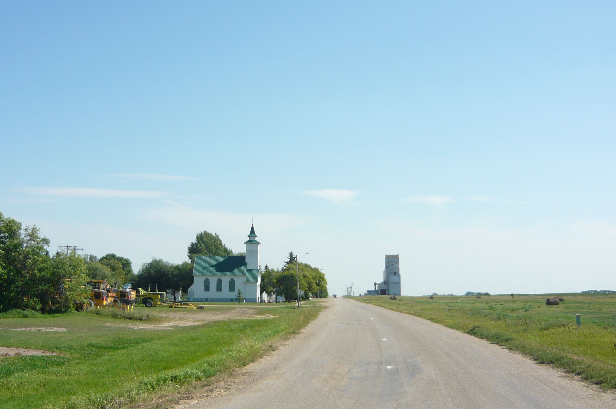 Railway Avenue (at intersection of Roberts Street), Holdfast, Saskatchewan, Canada.